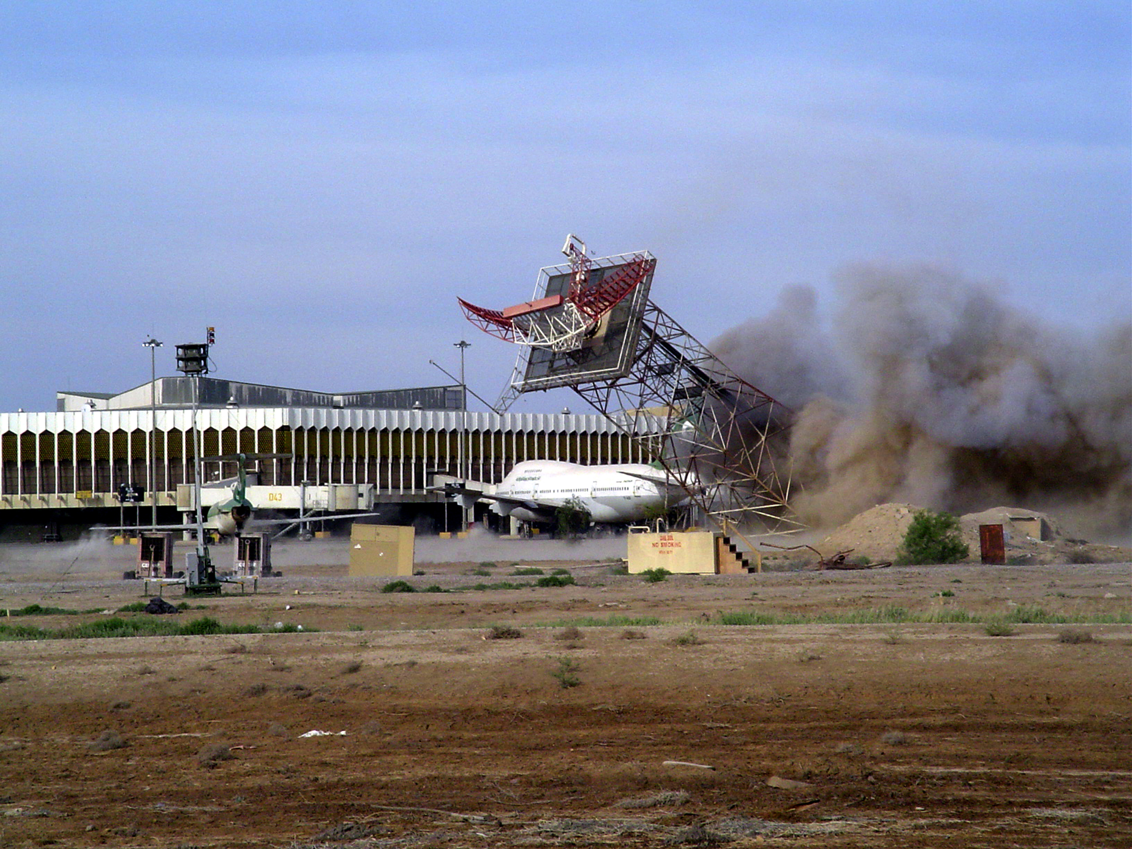 BAGHDAD, Iraq -- An obsolete radar tower at Baghdad International Airport comes down March 6. The tower was demolished to make room for a new radar tower to bring the airport up to international standards. A deserted Iraqi Airways 747 jumbo jet with its engines removed sits in the background. (U.S. Air Force photo by Master Sgt. Sean E. Cobb)